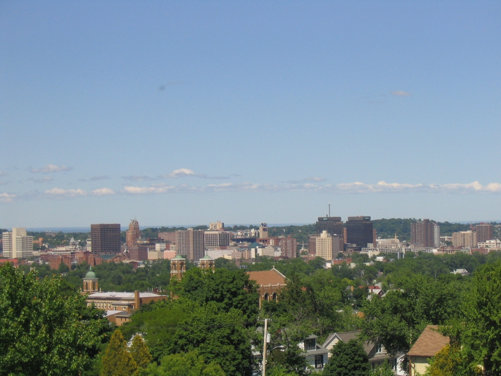 photo of the downtown syracuse skyline, taken by me Joegrimes 02:50, 8 December 2006 (UTC) It is available for viewing at my website